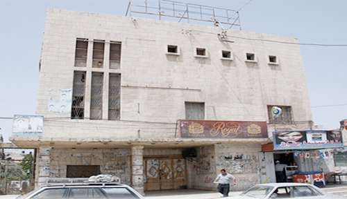 Author Marcus Vetter, Cinema Jenin Author Marcus Vetter, Cinema Jenin